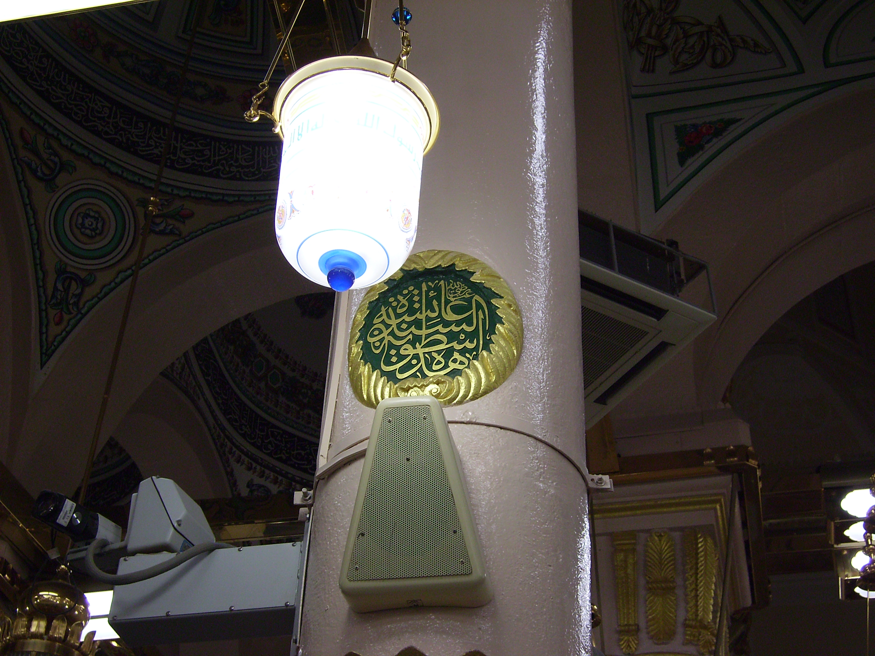 Aysha Cylinder in Al-Masjid Al-Nabawi